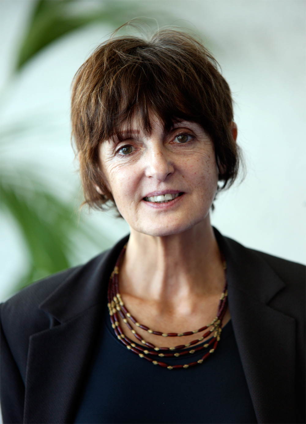 Director of Foundation Trust Network